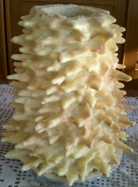 Lithuanian traditional cake. Photo made by myself.